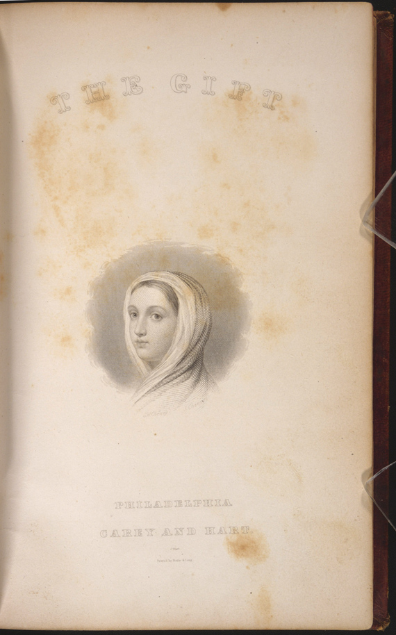 "The Pit and the Pendulum", by Edgar Allan Poe, first publication in the literary annual The Gift: A Christmas and New Year's Present for 1843, 1842, Carey and Hart, Philadelphia. The image shows the cover of the magazine The Gift, 1842.